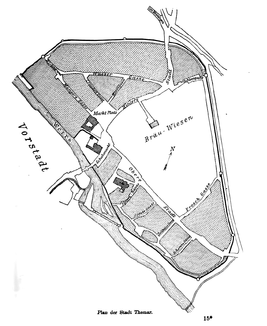 A map of Maienluft castle in Wasungen.